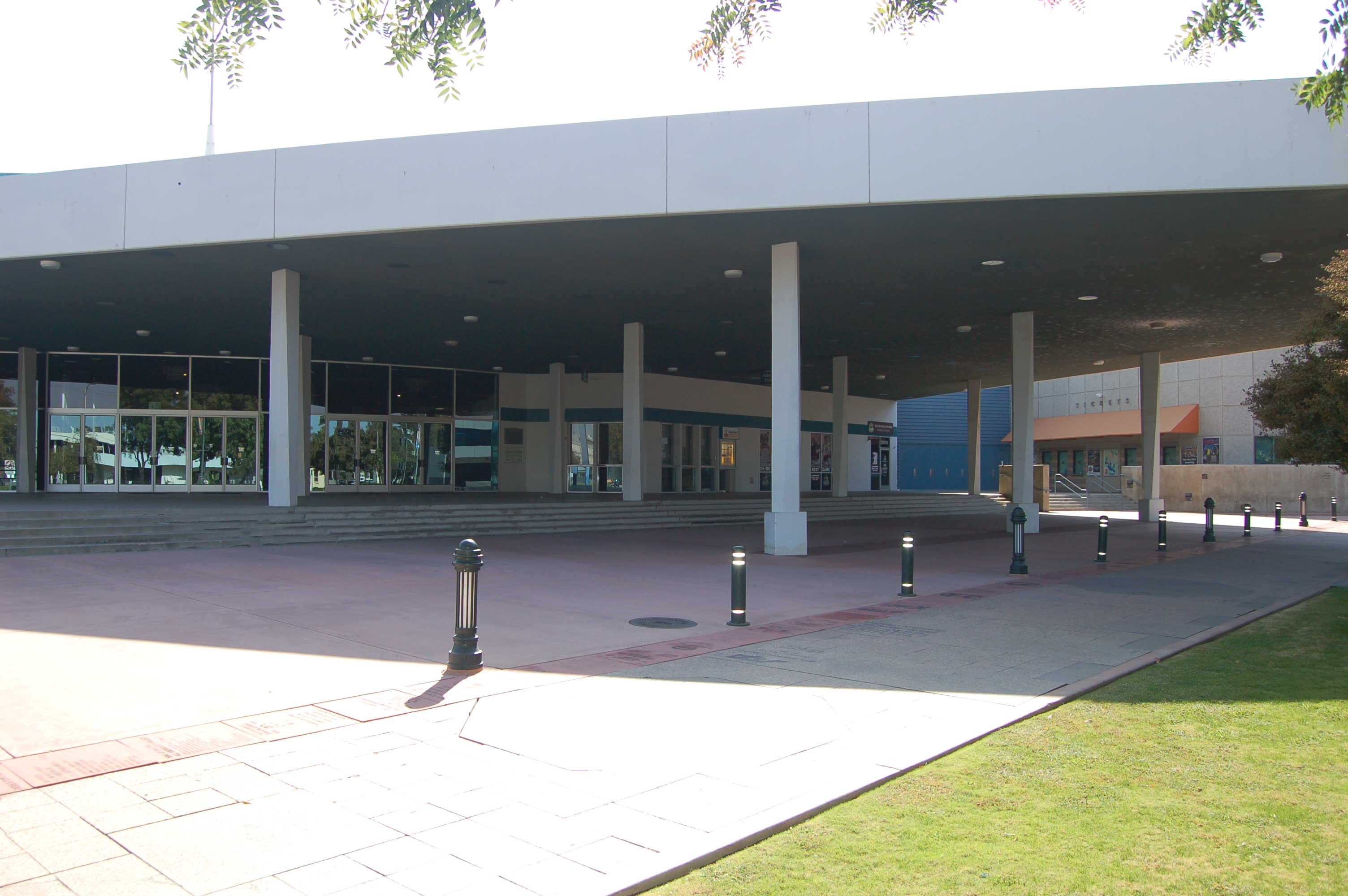 Entrance to the Bakersfield Convention Center. Also known as the Civic Auditorium and the Rabobank Theater.